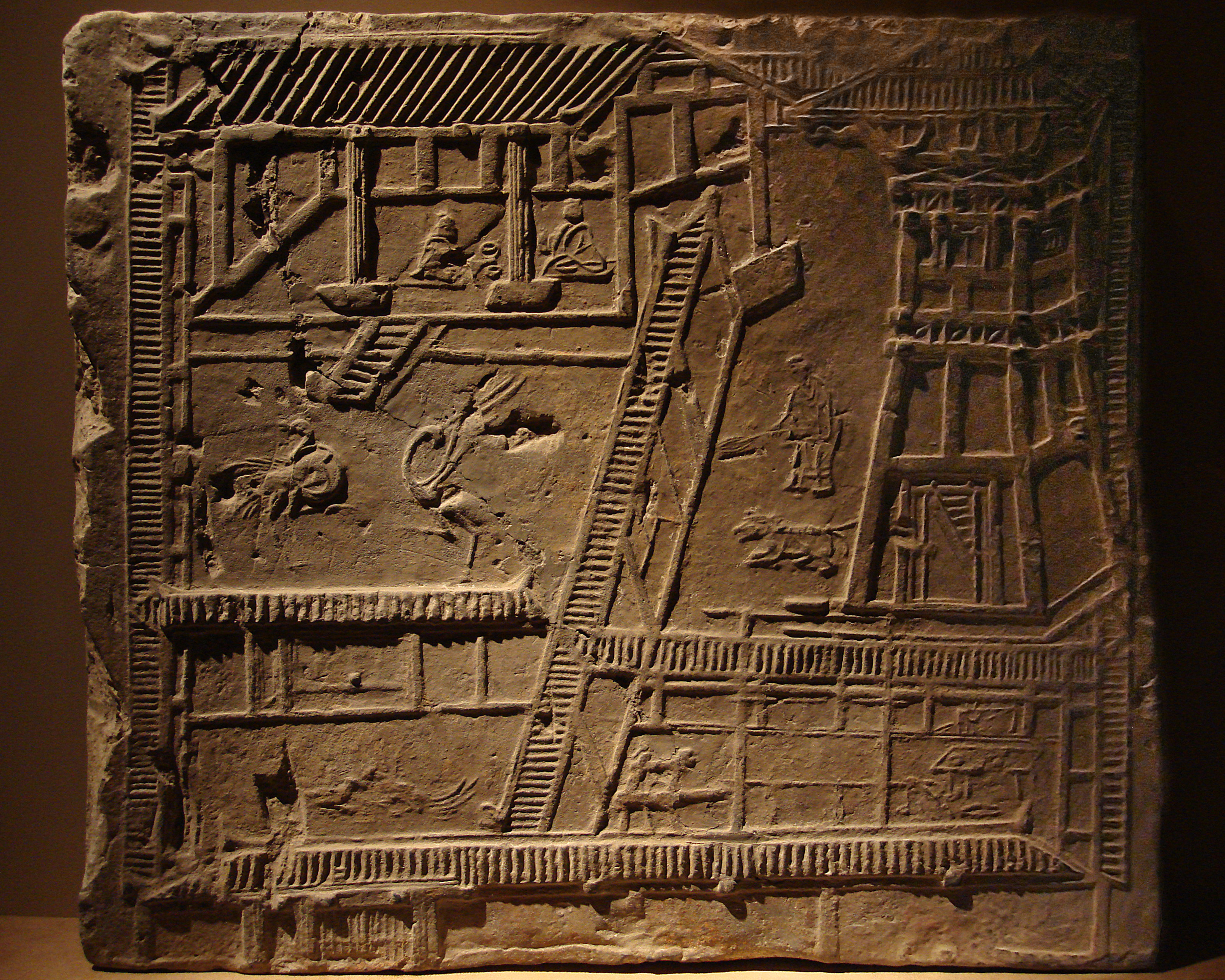 Pictorial brick depicting a courtyard scene Eastern Han Dynasty (A.D. 25 - 220) Excavated at Chengdu, Sichuan Province, 1954 This brick, from the chamber wall of a rich and powerful family's tomb, depicts the home of a wealthy, influential Han official; it features a walled courtyard, house, bedrooms, halls, kitchen, well, and a watchtower. The host and his guest sit and drink in the inner courtyard, while two roosters fight and two cranes dance.